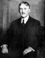 Public domain portrait of Secretary of State (later Secretary of War) Henry L. Stimson obtained from [1]